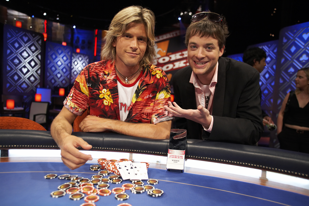 Hamish Blake (right) and Andrew G (left) in an episode of Joker Poker in 2005.